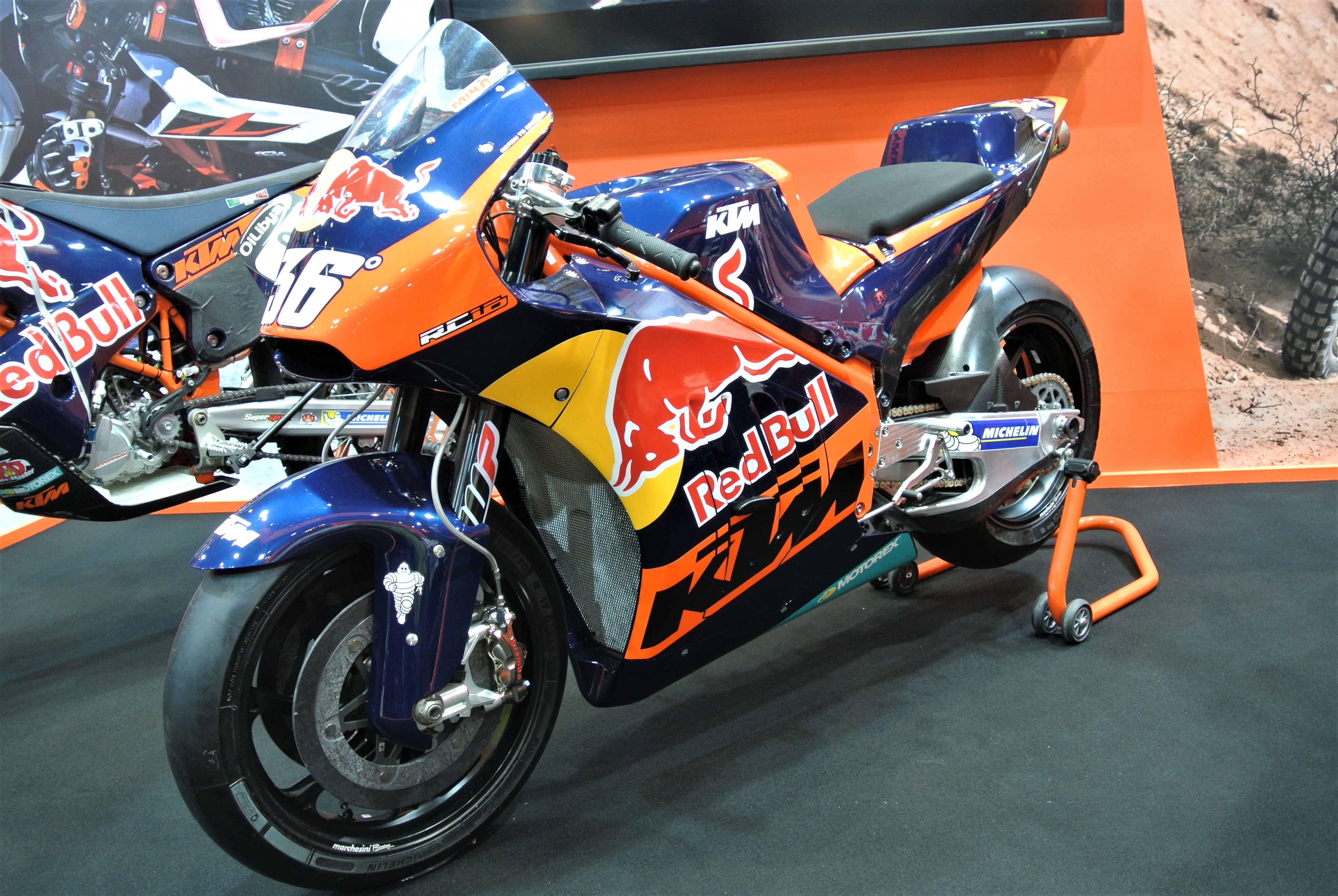 KTM MotoGP Bike RC16 at the Tokyo Motorcycle Show 2017. #36 Mika Kallio.